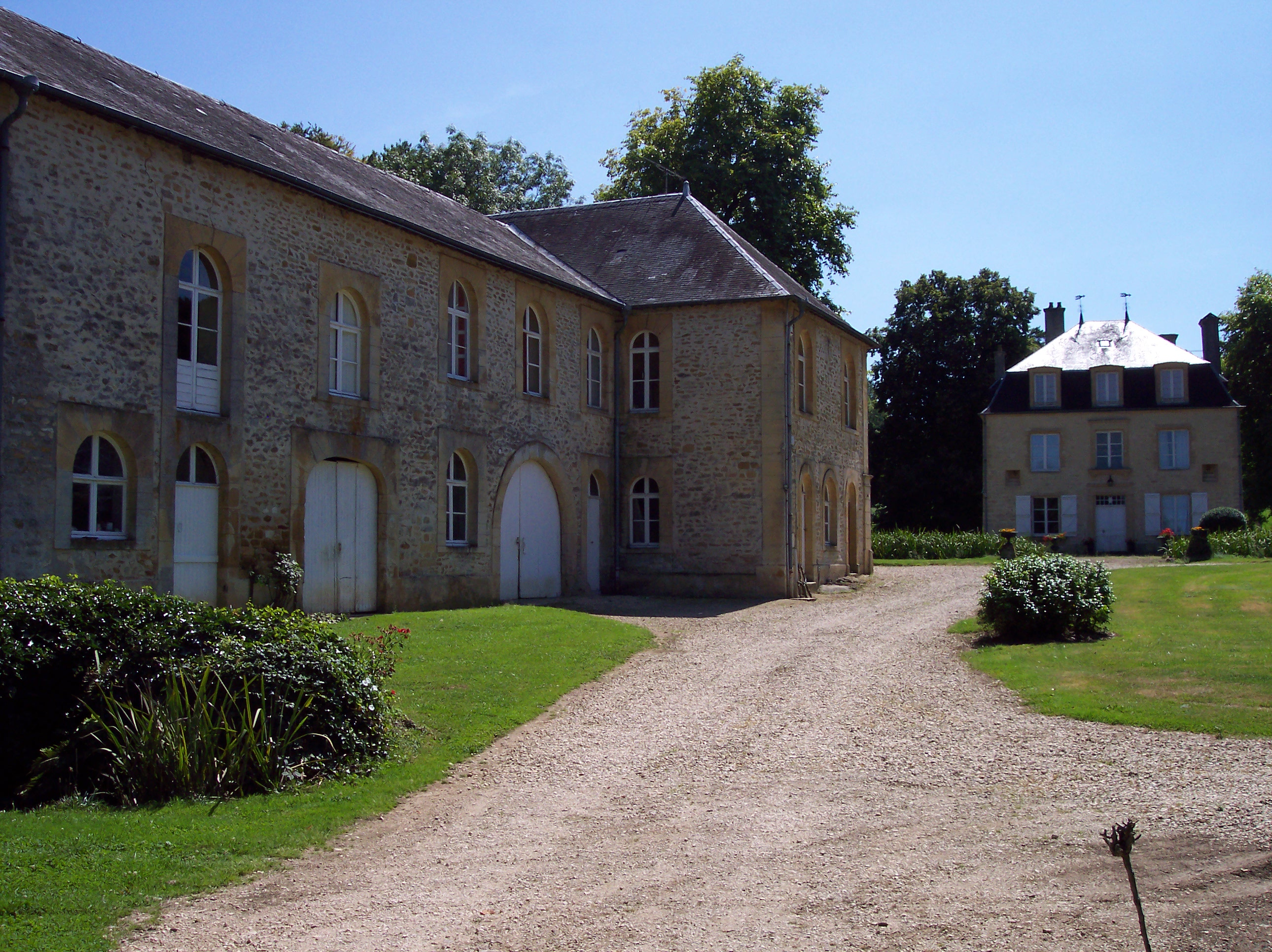 Castle of Tailly, department of Les Ardennes, France.